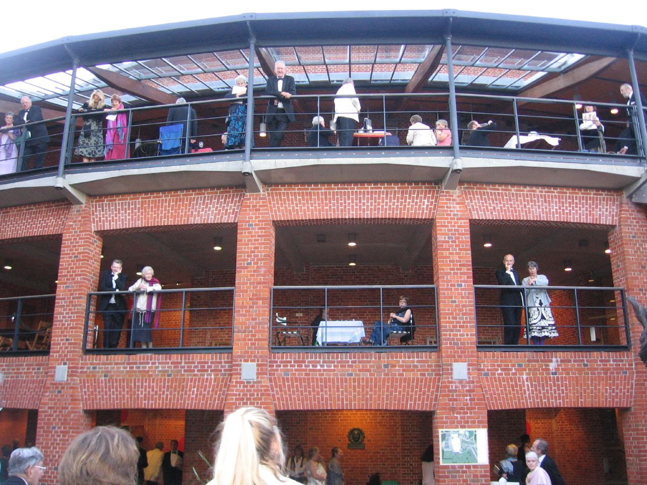 Glyndebourne Opera House, Lewes, East Sussex, England